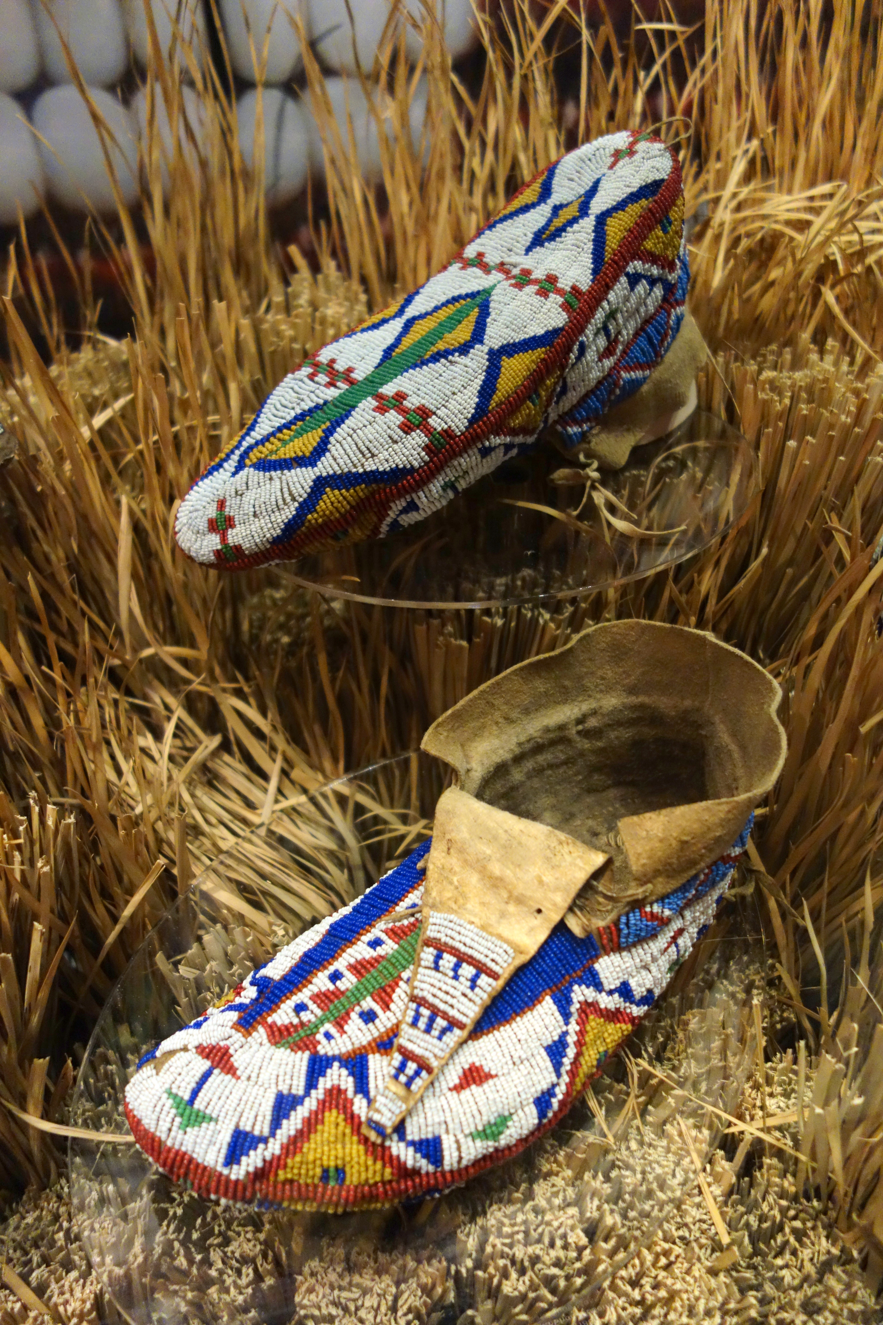 Exhibit in the Bata Shoe Museum, Toronto, Ontario, Canada. This item is old enough so that its design is in the public domain. The museum permitted photography without restriction.